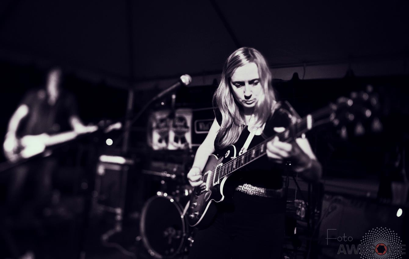 Anna Kramer and the Lost Cause at Little 5 Fest 2012 by Chris Awesome